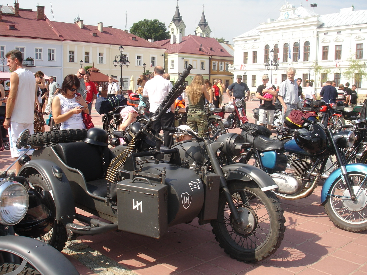 Sanok main marke - mobil heppening (2nd SS Panzer Division Das Reich